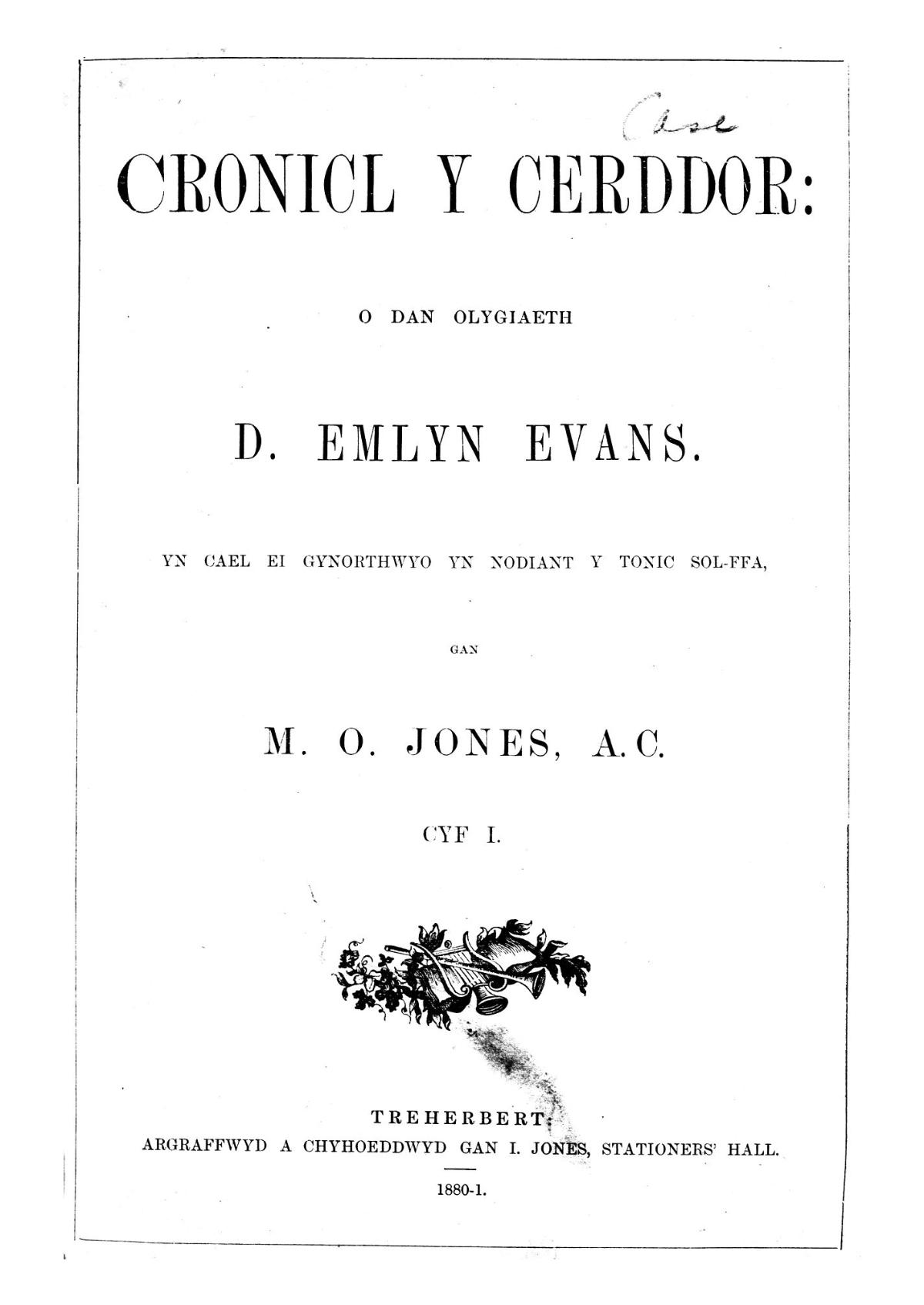 A monthly Welsh-language music periodical intended for young people. The periodical's main contents were compositions, published as a supplement, alongside articles and news on music and musicians. The periodical was edited by the musician David Emlyn Evans (1843-1913) with the musician, writer and schoolmaster, Moses Owen Jones (1842-1908) serving as deputy editor, with responsibility for the tonic sol-fa sections.